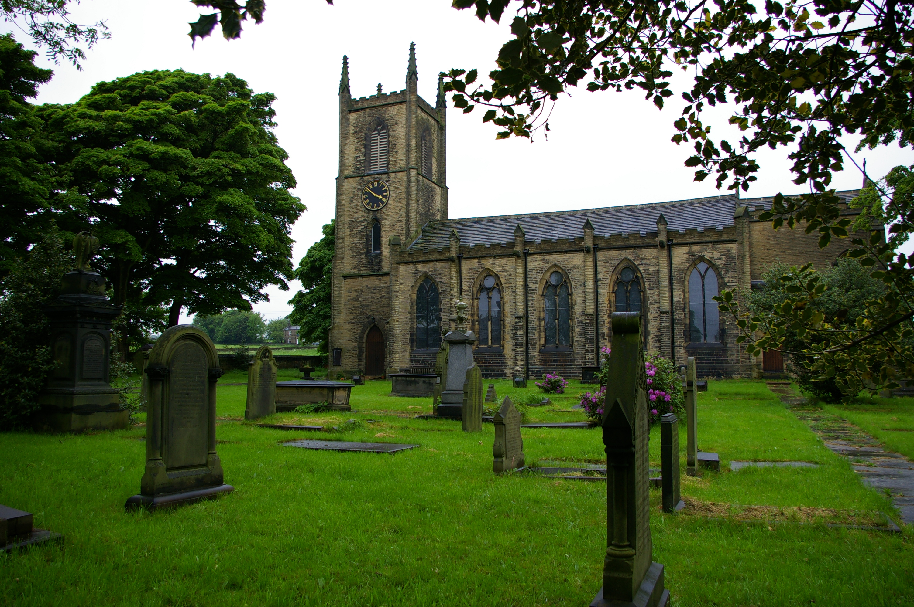 Saint Anns Church and graveyard, Southowram, West Yorkshire